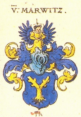 Coats of arms of von der Marwitz family